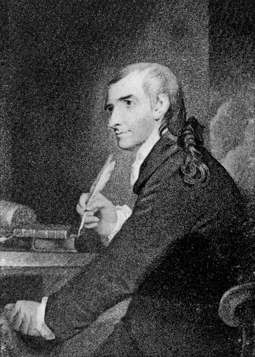 Image of Francis Hopkinson